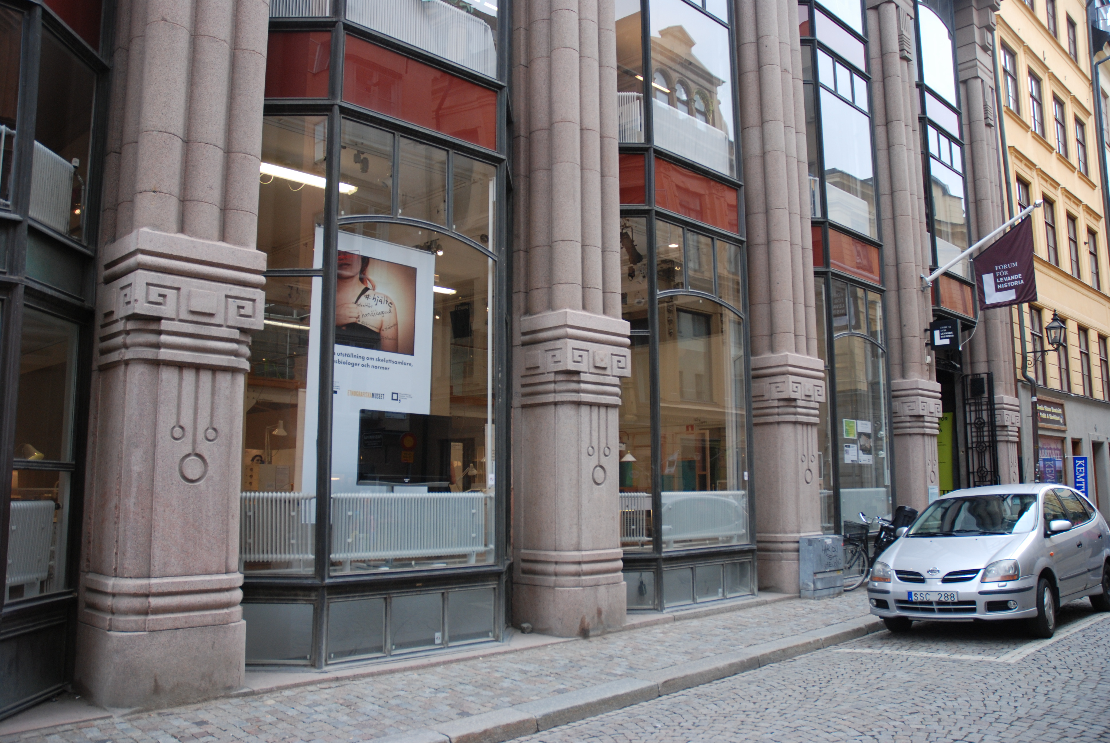 Swedish Government Authority Forum för levande historia, HQ and exhibition hall, Old Town, Stockholm, Sweden